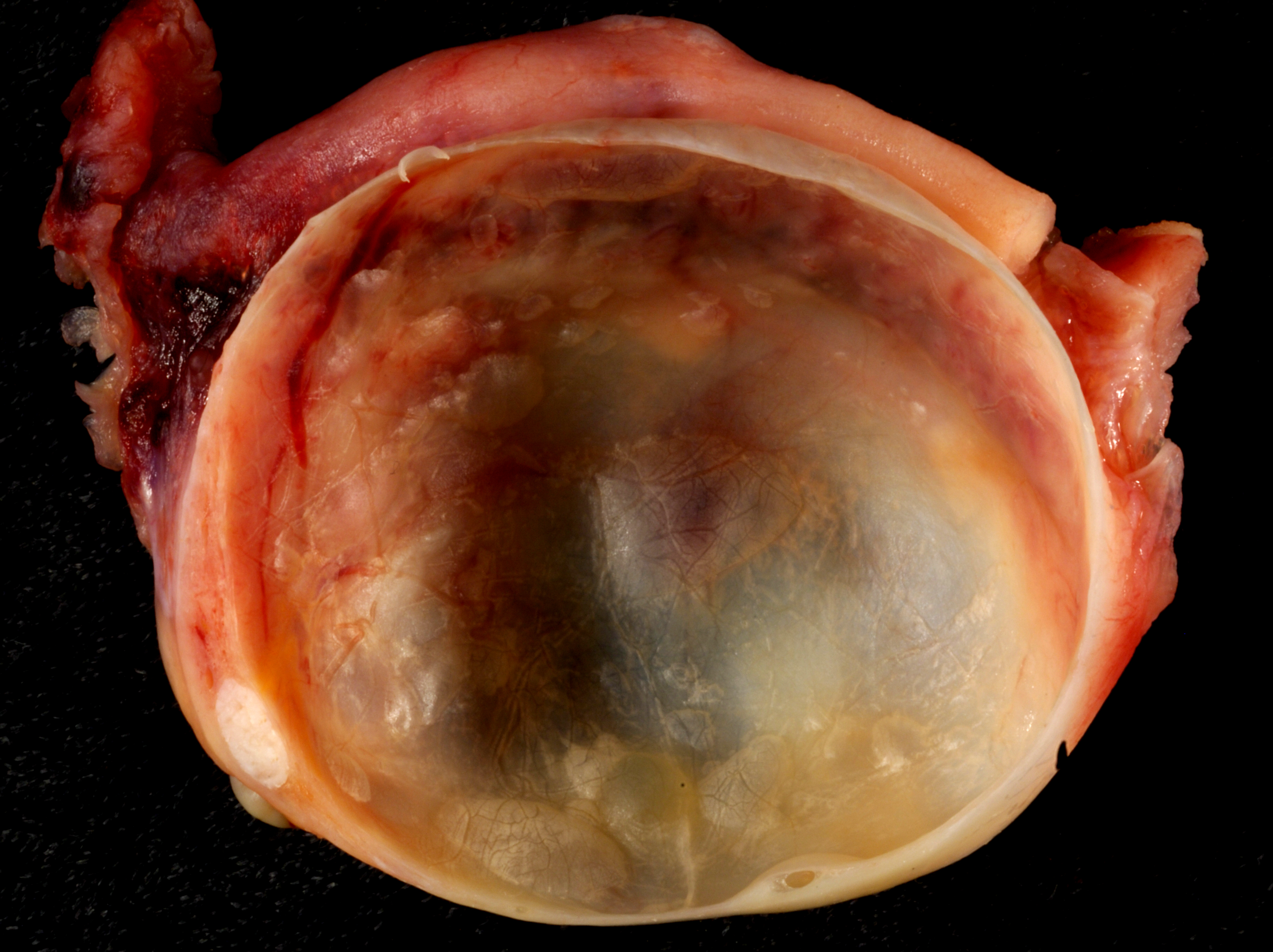 Benign Ovarian Cyst This 4.5-cm cyst had no specialized lining. I called it "benign cyst of undetermined histogenesis." I suspect it is of follicular origin.